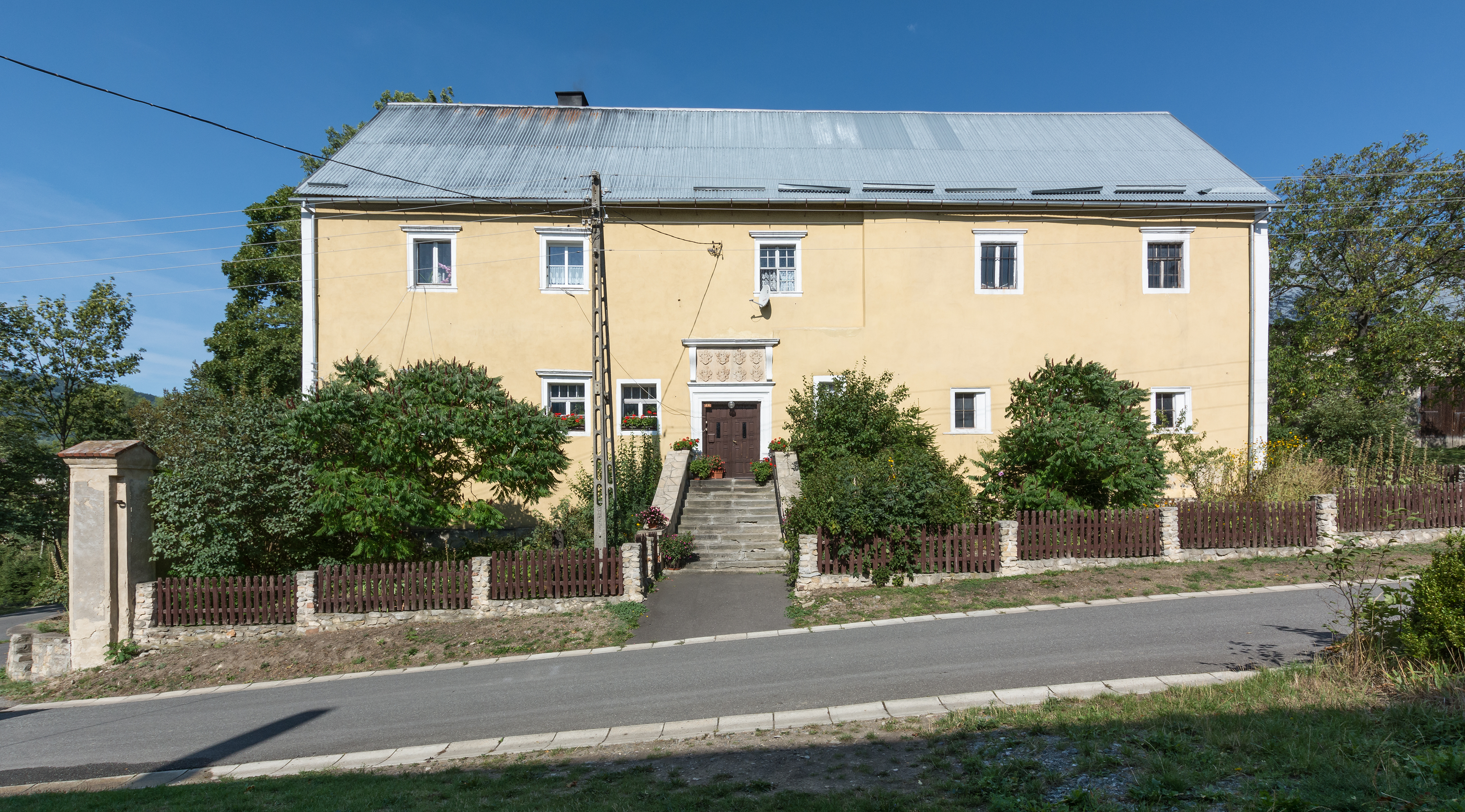 Middle Manor in Stara Łomnica